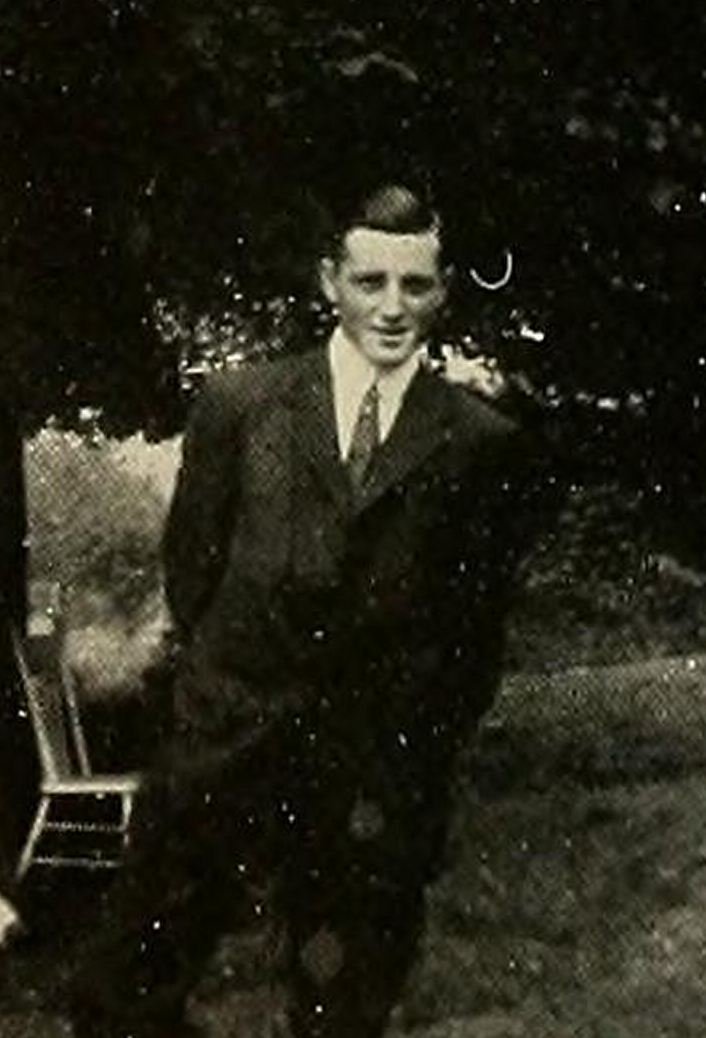 CA "Tod" Eberle